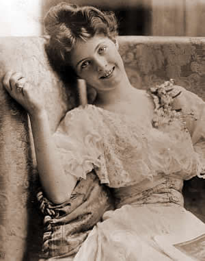 Actress Mabel Taliaferro